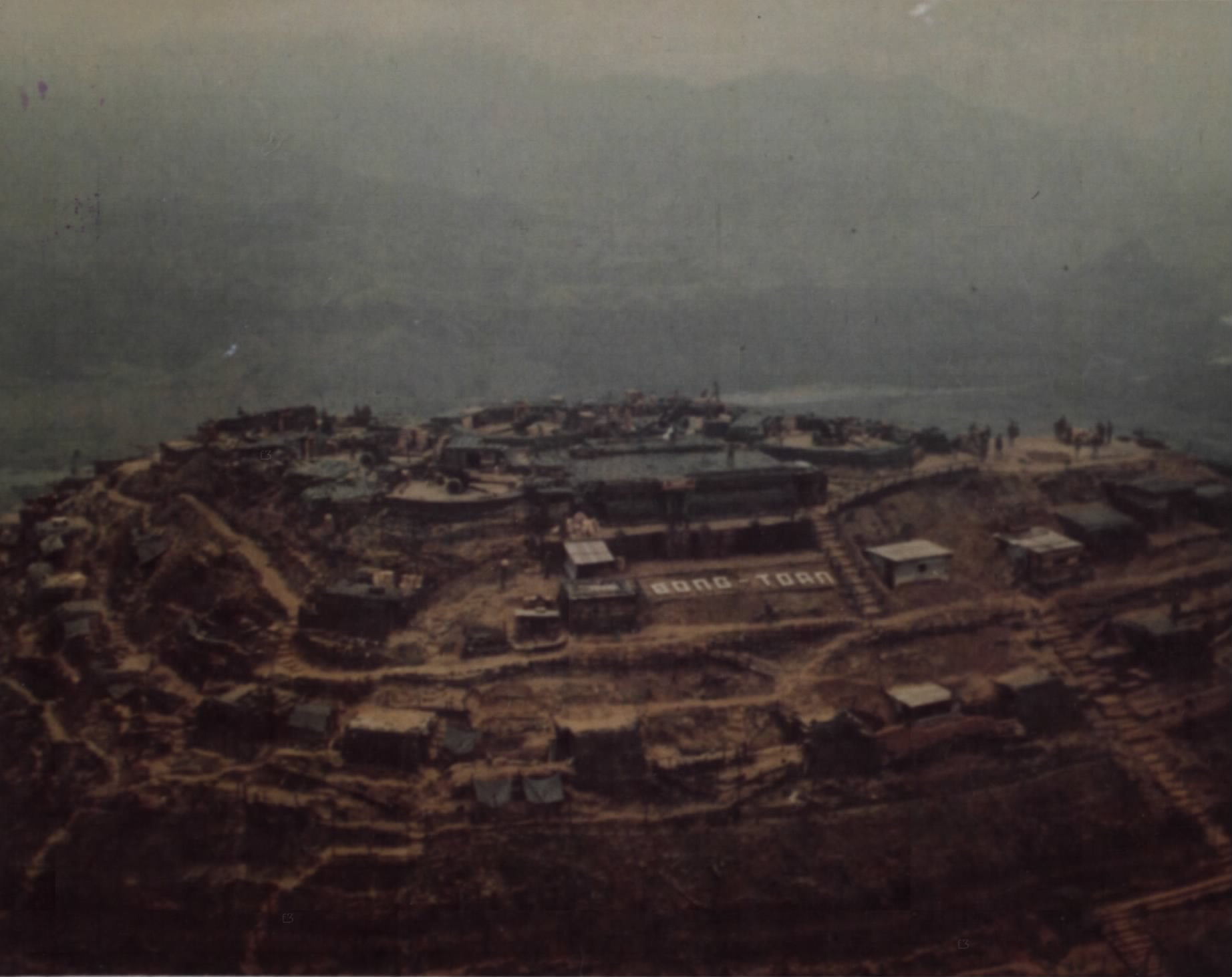 iew of "Fire Support Base Sarge", overlooking Quang Tri River Valley, the infiltration route to the coast, located 25km WSW of Dong Ha. It is being evaluated by the Army Concept Team in Vietnam ACTIV. Their job is to evaluate the employment of the Entegrated [Integrated] Observation System (IOS).